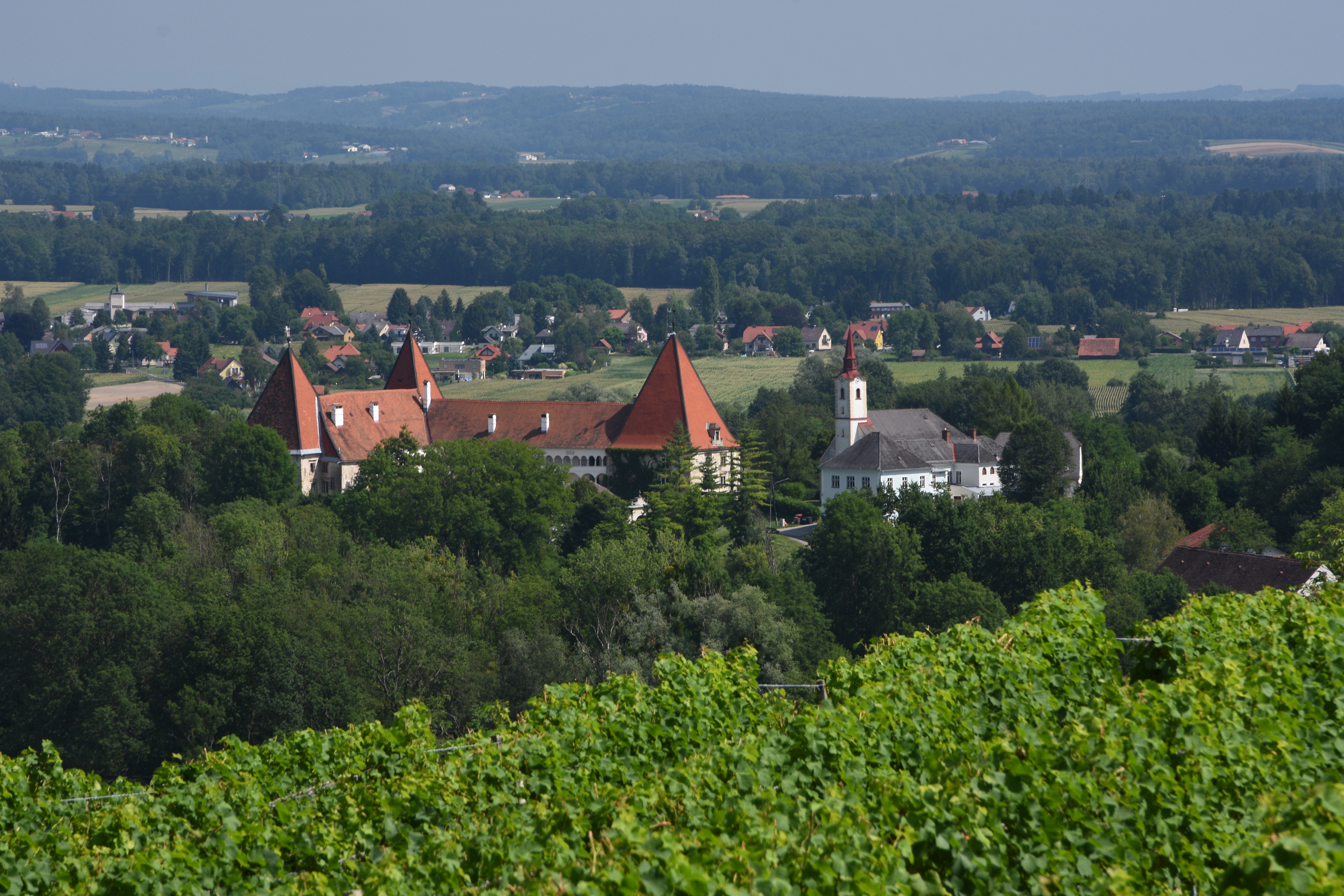 Spielfeld Castle and Church